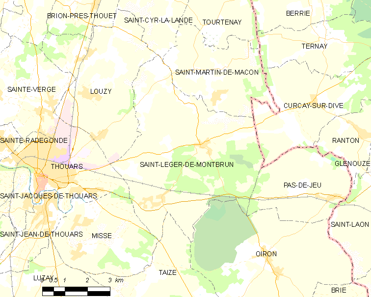 Map of French municipality Saint-Léger-de-Montbrun